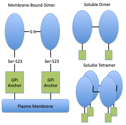 A cartoon diagram I made of membrane-bound and soluble 5'nucleotidase